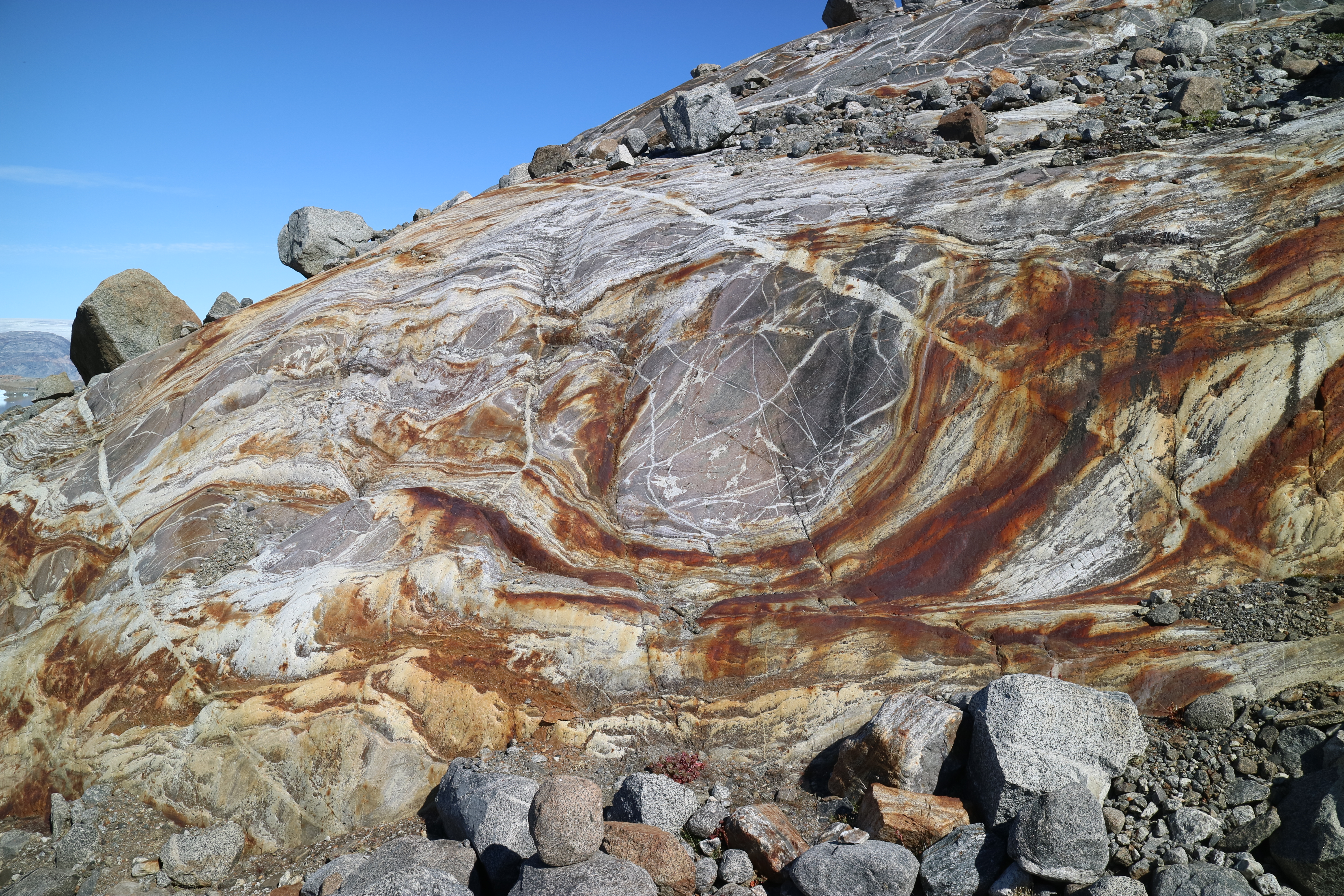 Glacial polish at Hann glacier in South East Greenland